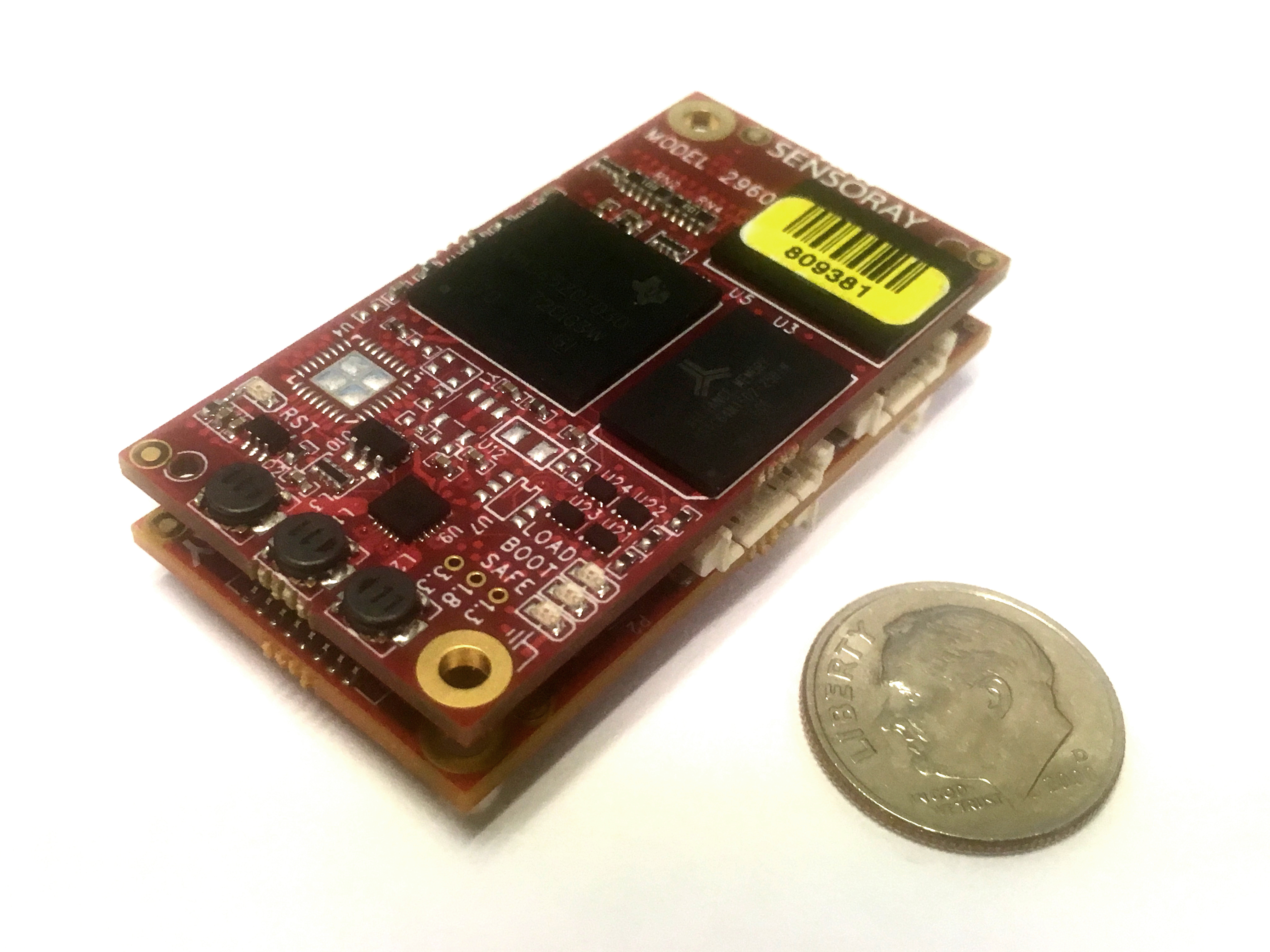 This device (Sensoray 2231) captures analog HD video up to 1080p30, adds user-defined text overlay, compresses to H.264 (High Profile, L3) and streams it over USB. Supported HD/SD input formats include AHD, HD-TVI, HD-CVI, NTSC and PAL. It also captures analog audio (AAC) and grabs high-resolution JPEG snapshots on-the-fly without interrupting A/V streams. The small size (48x25x10 mm) and low weight (14 g) are useful in space- and weight-constrained applications. Analog HD can be transmitted over long distances, so this device can capture video at the downstream end of a very long (up to 500 meter) cable in apps such as remotely operated vehicles.